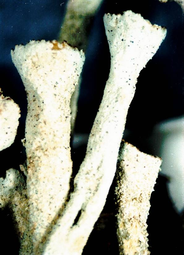 Cladonia deformis (L.) Hoffm., 1796 (photograph of a herbarium specimen taken through a dissecting microscope (x12) showing the upper portions of podetia covered with powdery soredia) Growing on moss along the shore of Lake Superior in Neys Provincial Park, ca. 15 miles N of Marathon on Route 17, Thunder Bay District, Ontario, Canada; collected and identified by Richard E. Riefner (No. 81-617, 2 Aug 1981); specimen is now in the Lichen Herbarium of the New York Botanical Garden.